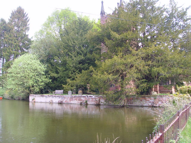 Duck Pond, Badger This pond lies in front of St Giles Church, Badger. The church was built in 1834.